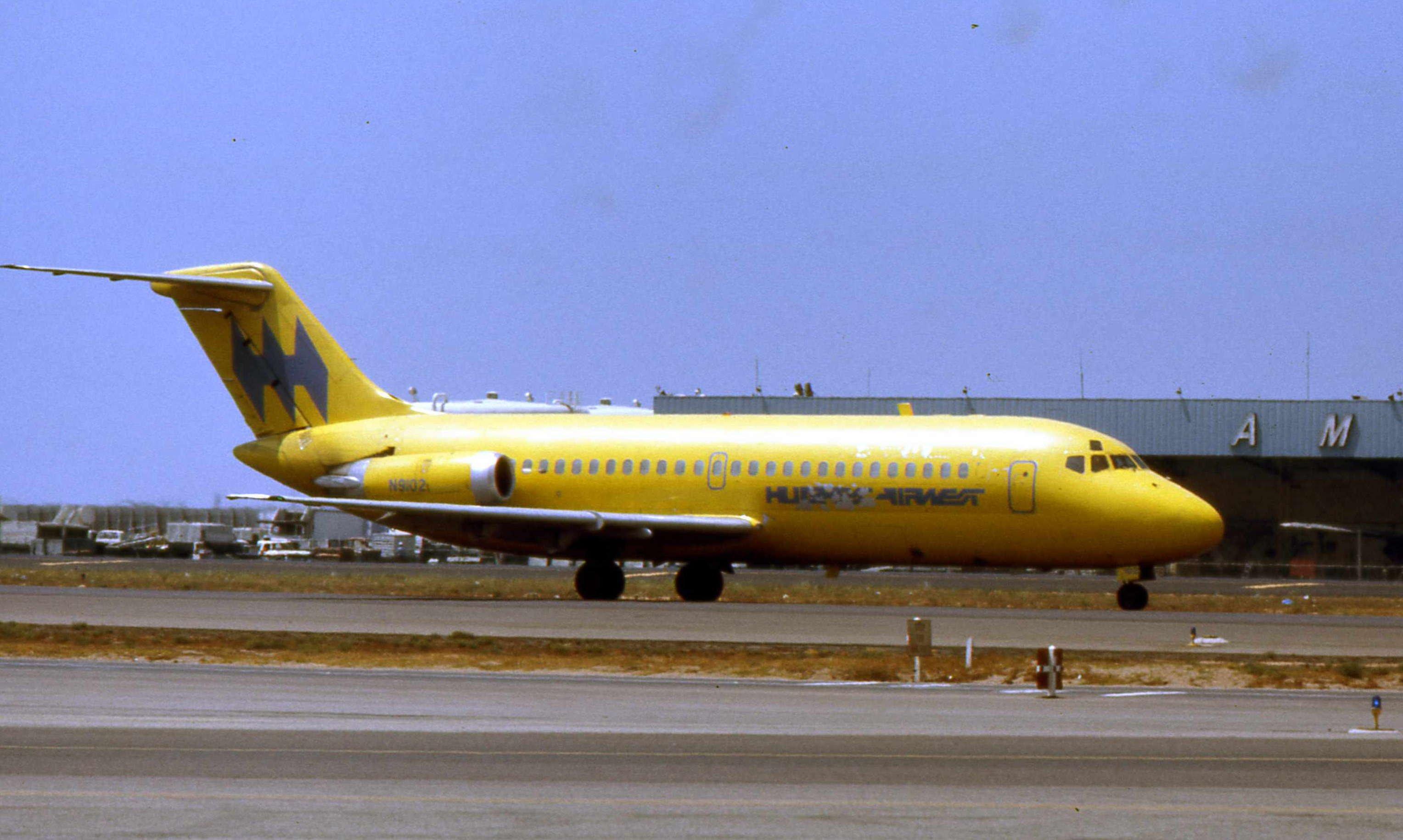 Hughes Airwest Douglas DC-9-14 withdrawn from use in 2002, stored at General Mitchell International Airport (MKE), Milwuakee and cancelled in 2003.